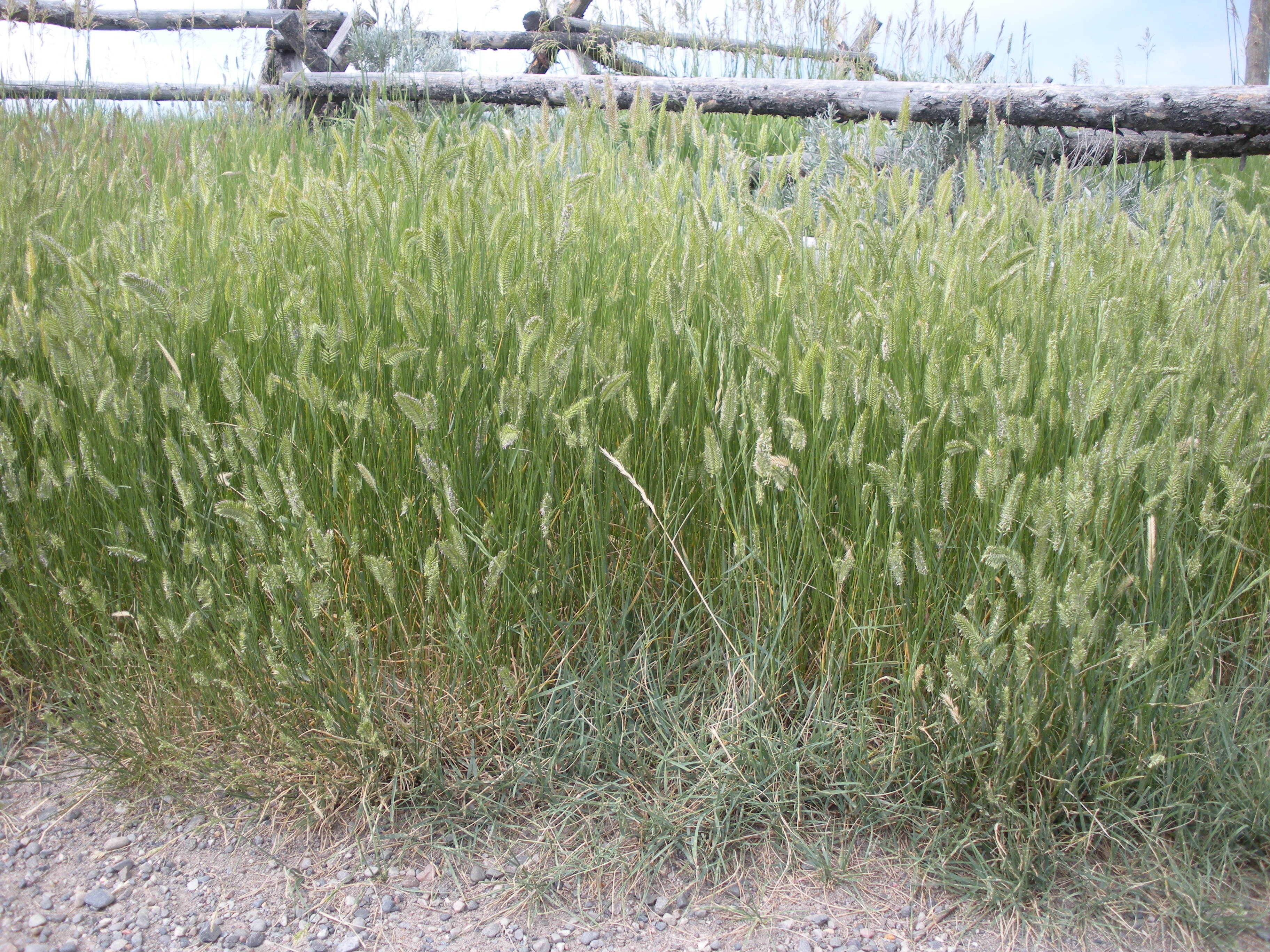 This bunchgrass species can form dense almost pure stands.